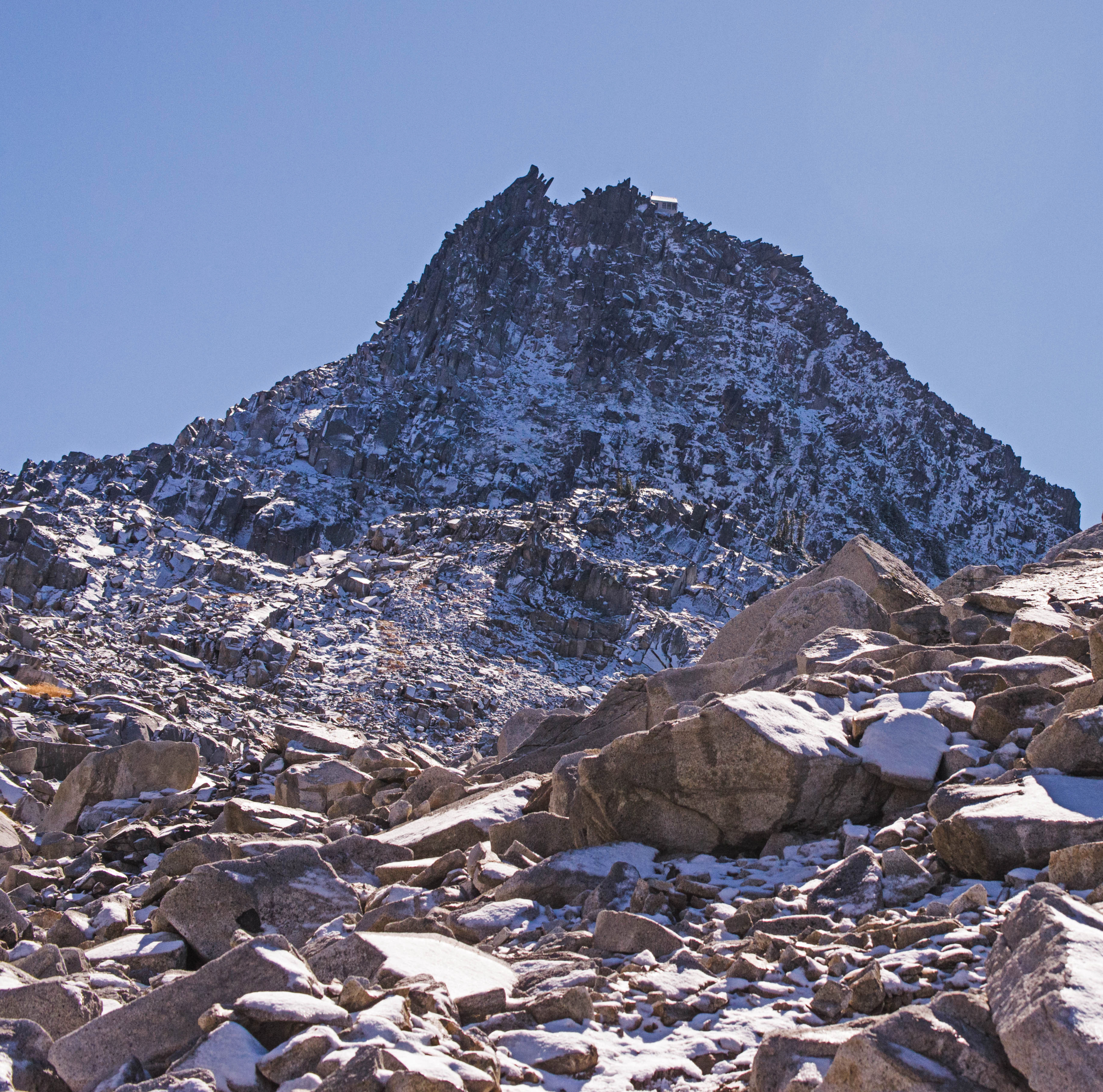 Hidden Lake Peak, North Cascades National Park